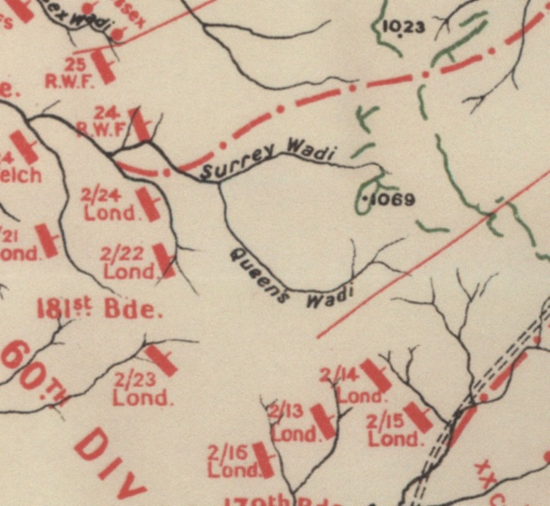 Detail of Falls Map 5 Battle of Beersheba